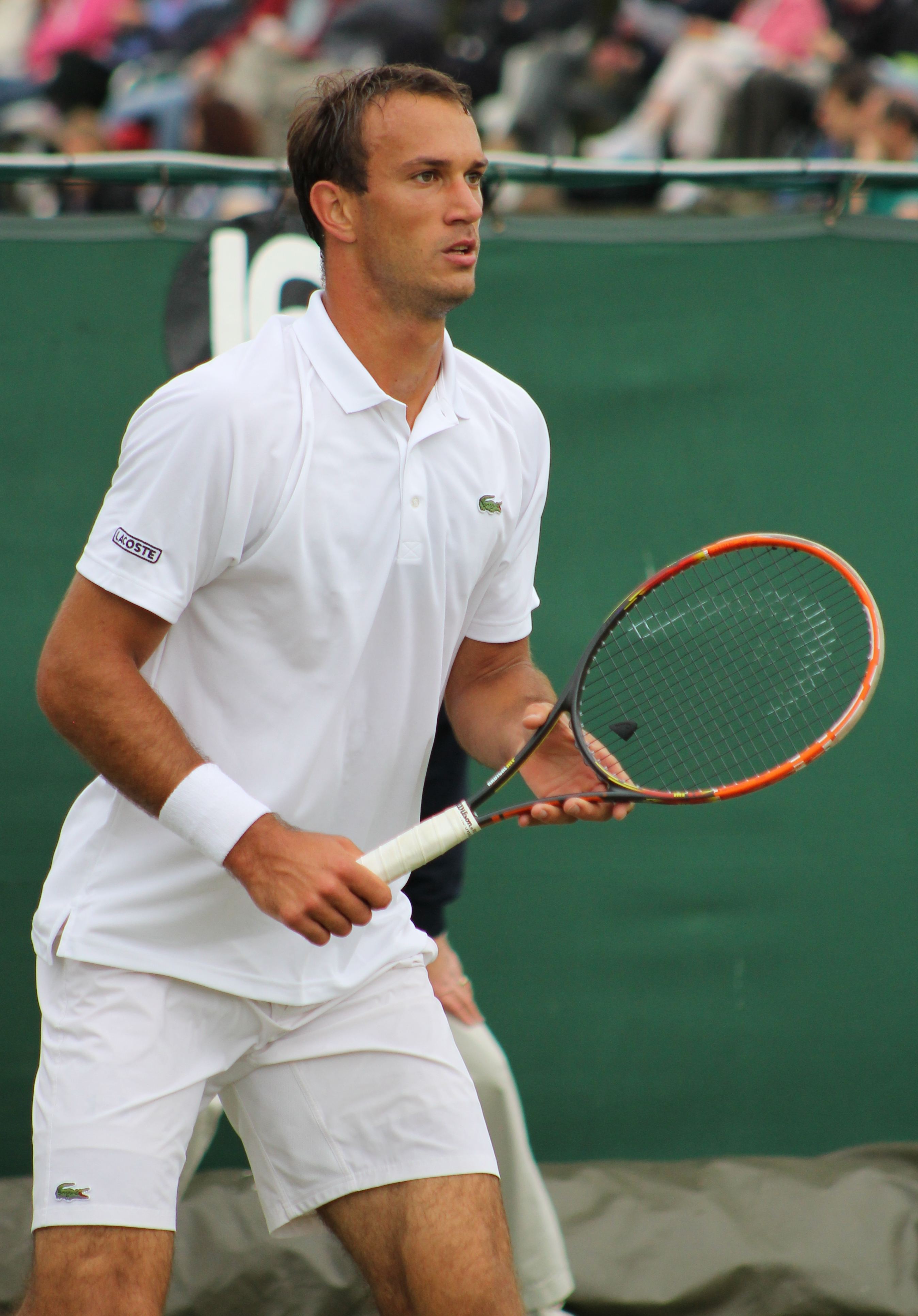 Pavic A. WMQ14 (9)